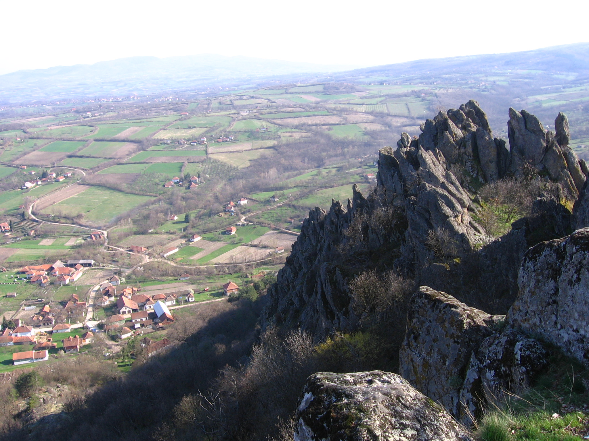 Borački krš_stene